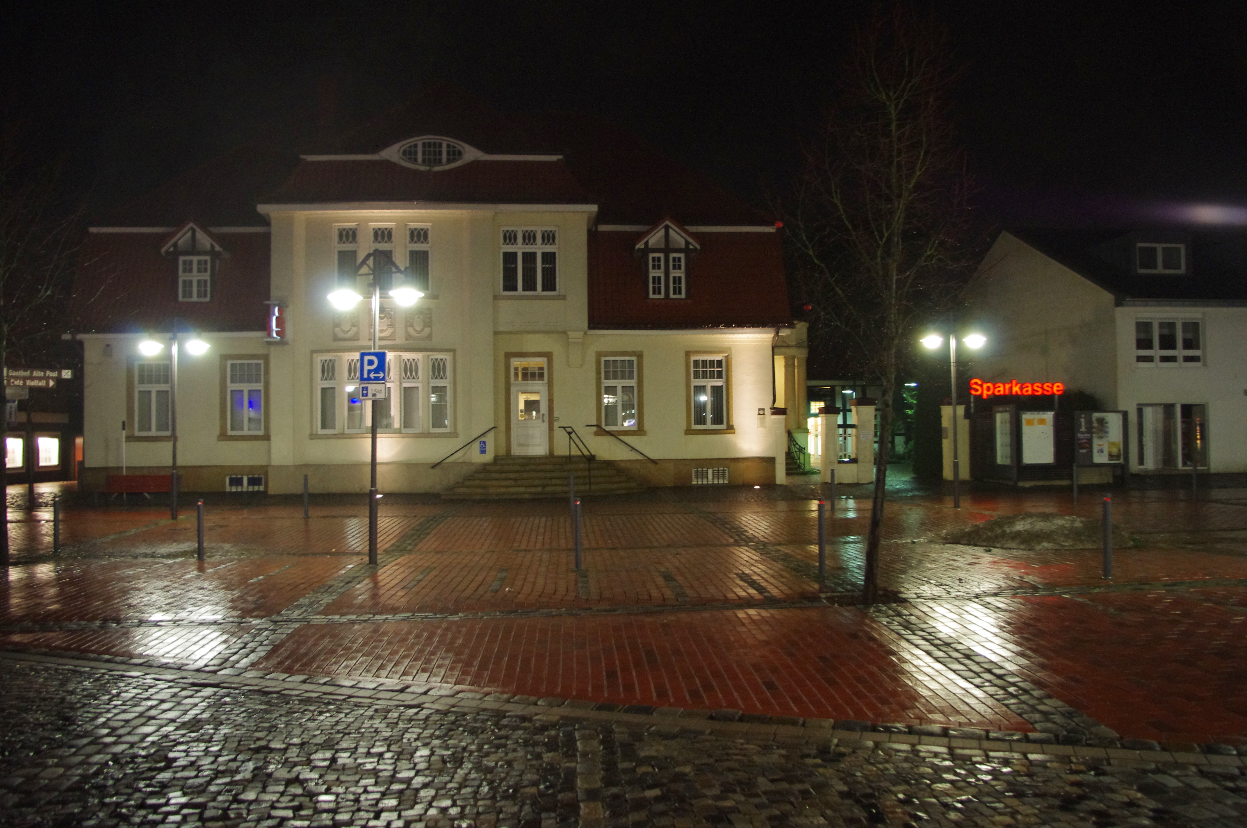 Bank in Bramsche, Germany